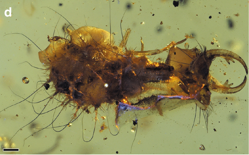 Diversity of the larvae of Myrmeleontiformia in mid-Cretaceous Burmese amber.D) Electrocaptivus xui gen. et sp. nov., holotype. Scale bar: 0.5 mm